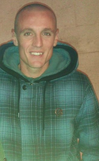 Italian football player